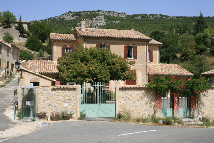 School in Brantes - Vaucluse, France